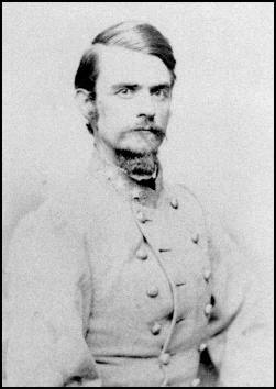 John Bullock Clark Jr (1813-1903), soldier and US congressman, in American Civil War-era uniform